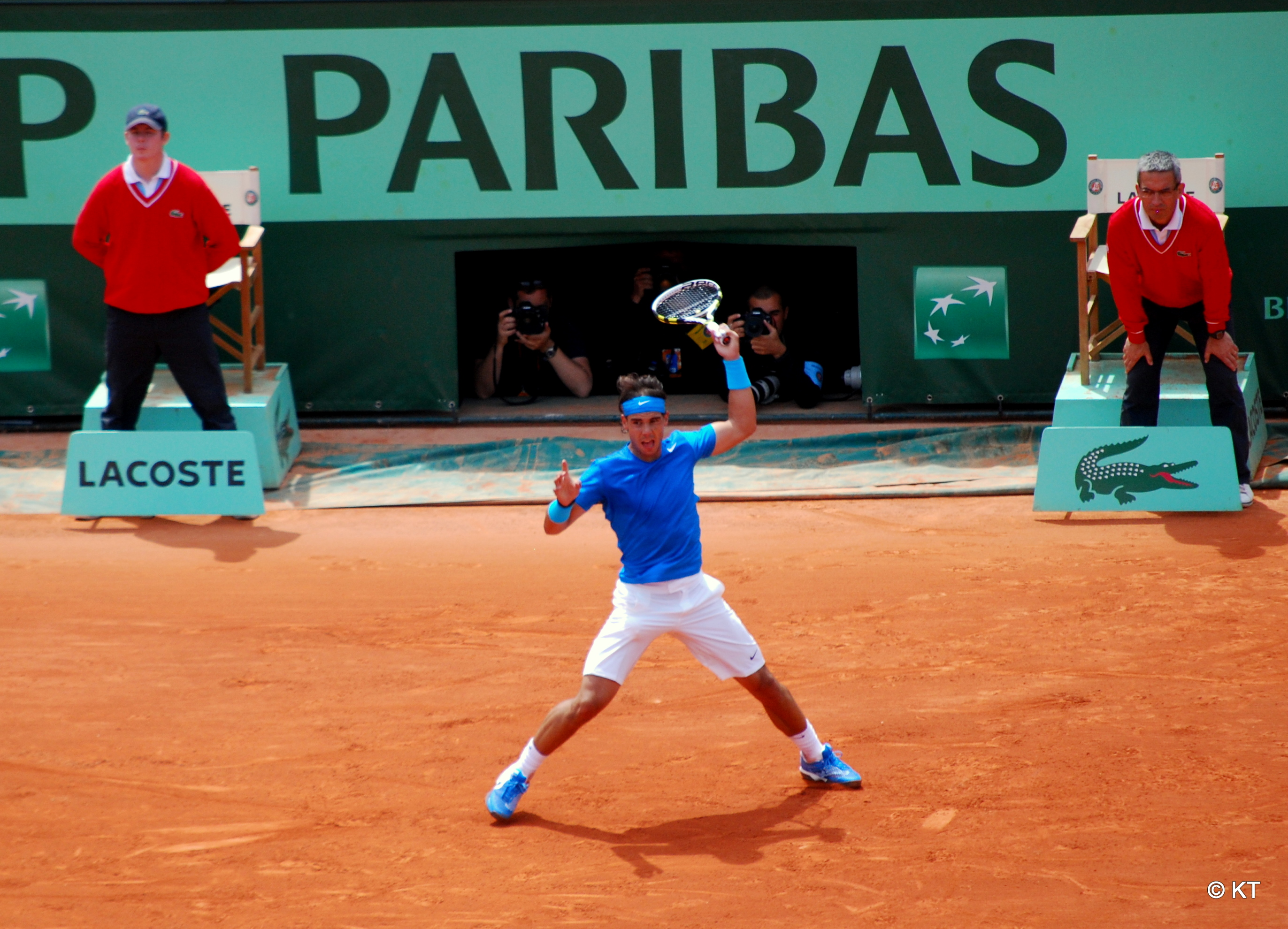 Rafael Nadal during his 3rd round match with Antonio Veic. Nadal won 6-1, 6-3, 6-0. Roland Garros 2011.